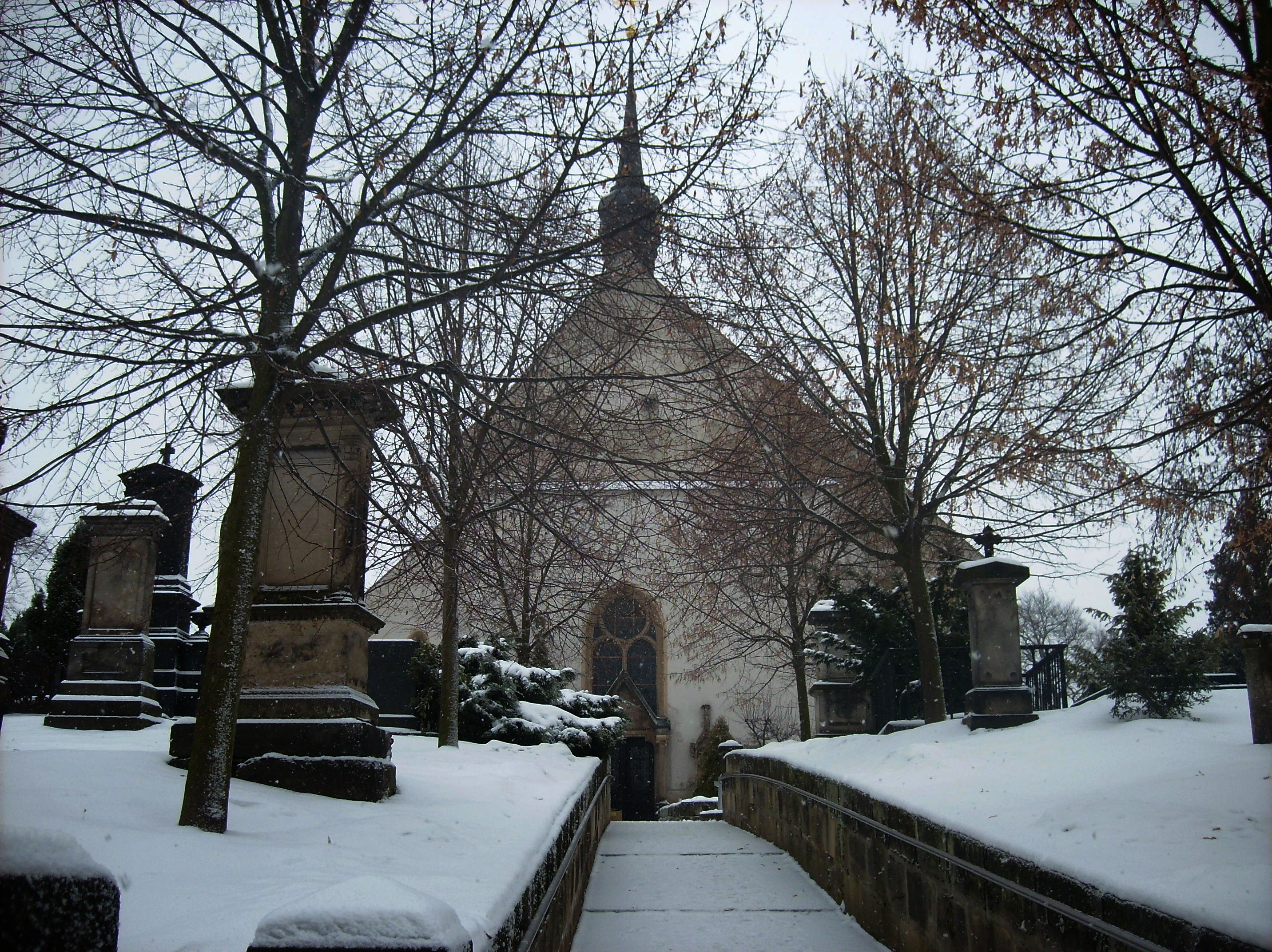 Our Lady's Church in Zittau (Görlitz district, Saxony) in winter